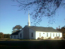 Howell Community Church located in Howell Township New Jersey